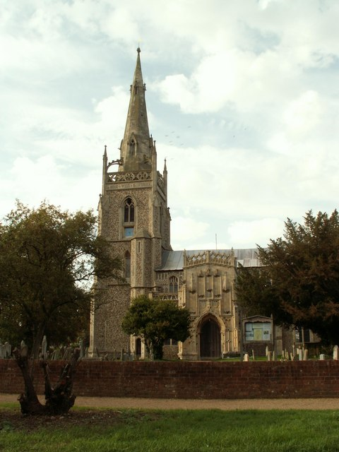 St. Mary's church, Woolpit, Suffolk. This is one of most attractive Suffolk churches, though its spire is more like a church from the fens. The tower and spire were only built in 1854 by R. M. Phipson, but the rest of the church dates from the 14th and 15th centuries. It has a magnificent south porch, which is due to money being given towards its construction in 1430 and 1452. Inside there is one of the most impressive double hammerbeam roofs in Suffolk.